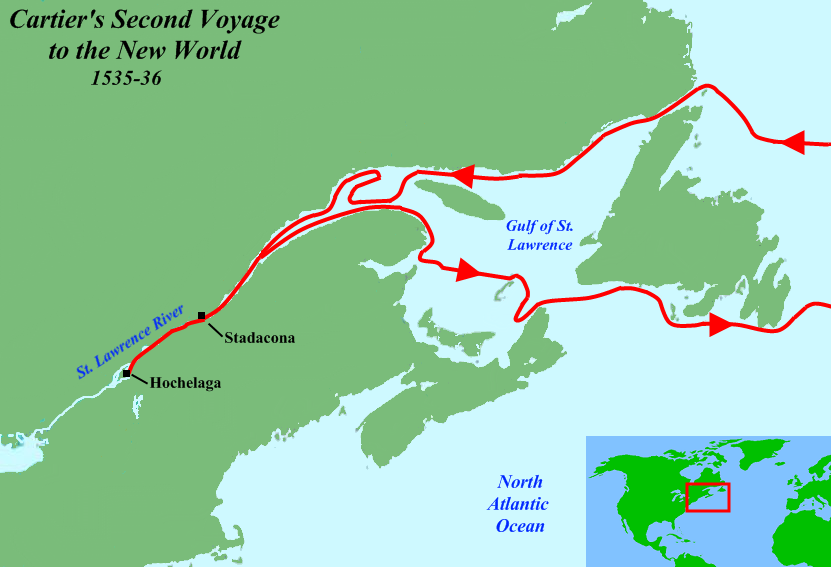 Map of Jacques Cartier's second voyage to North America in 1535-6.